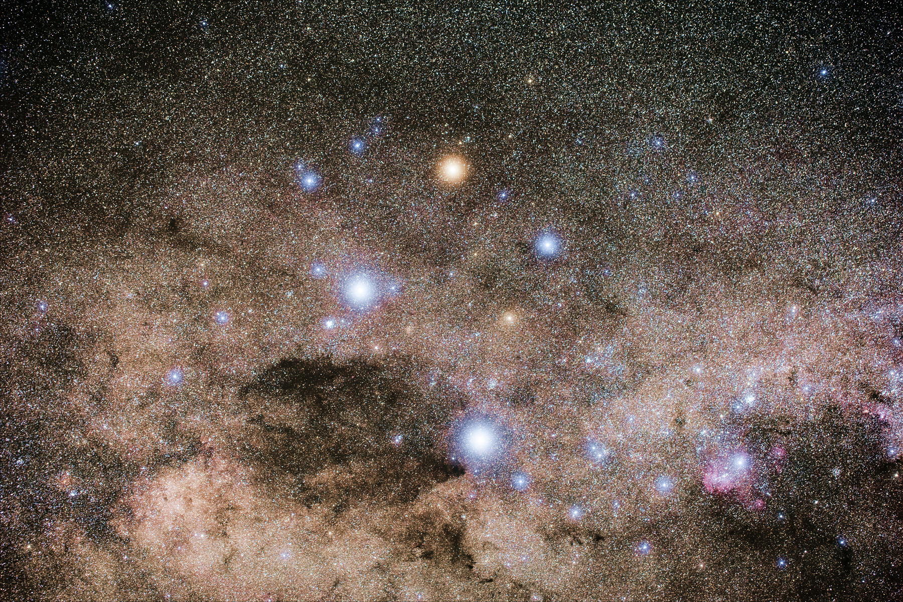 Wide field photo of the Crux (Southern Cross) constellation. The Coalsack Dark Nebula can be seen as the dark area below-right in the constellation. This photo was taken under foggy skies, causing the stars to become large glowing orbs. Image was created using 15 × 182 second (45 mins total) sub exposures taken with a stock Canon EOS 5D Mark II and 100 mm f/2.8L IS Macro lens at f/4 and ISO 1600 mounted on an Astrotrac equatorial mount, stacked using Deep Sky Stacker and finished using Adobe Photoshop CS5.